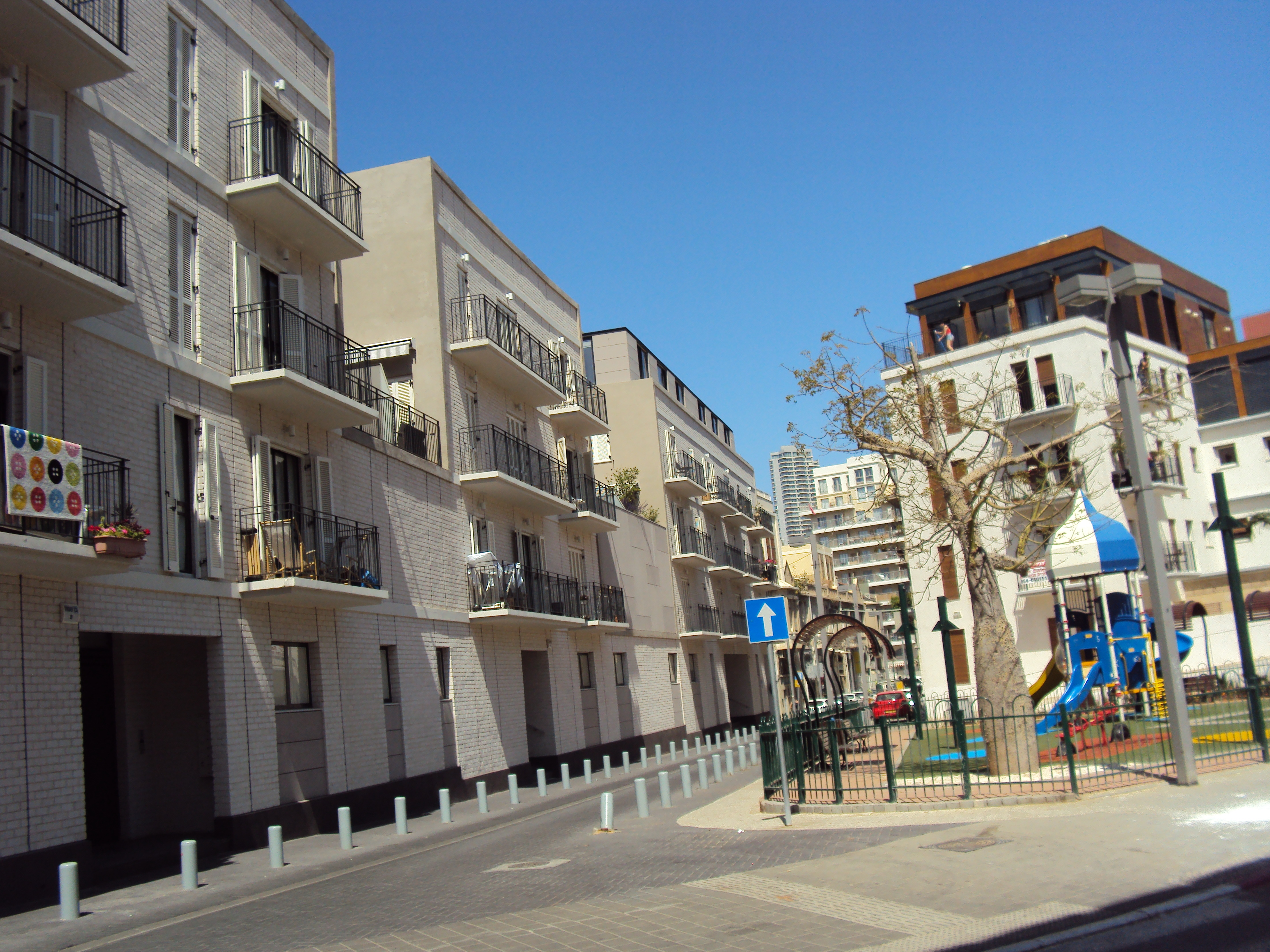 Israel, Jaffa, Shim'on Ben Shatakh street - new buildings